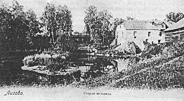 Ligovo mill